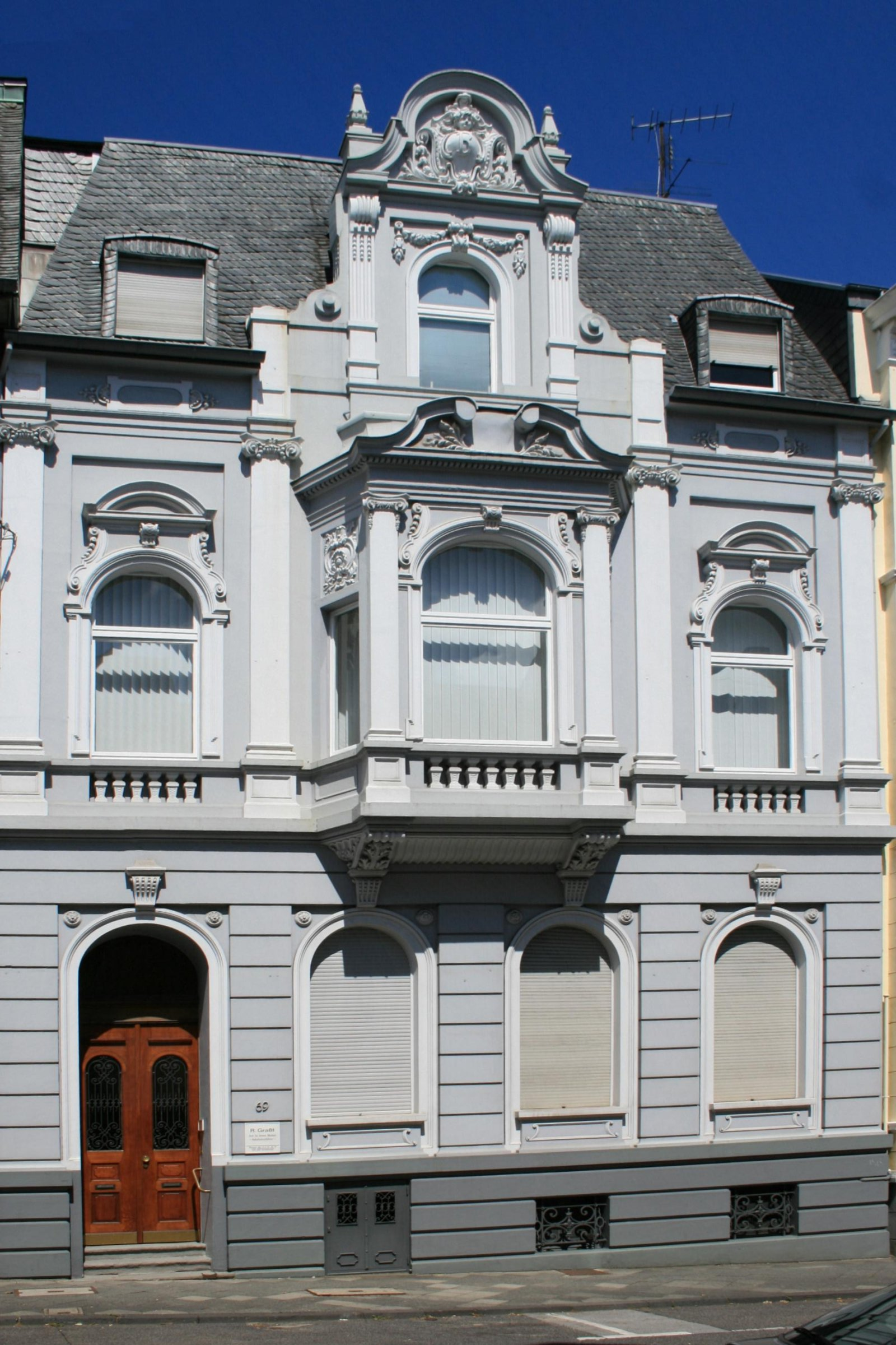 Cultural heritage monument No. K 052 in Mönchengladbach